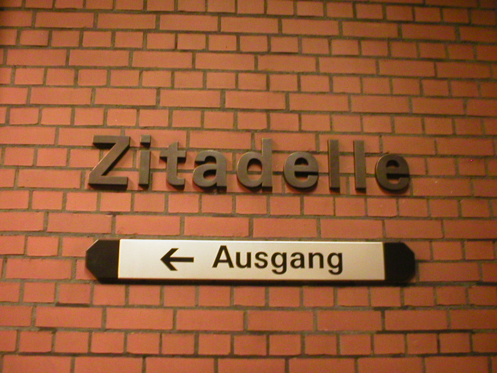 The U-Bahnstation Zitadelle, line U7, in Berlin, Germany